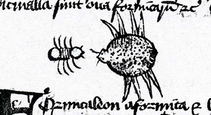 A mermecolion. British Library, Royal MS 2 B. vii